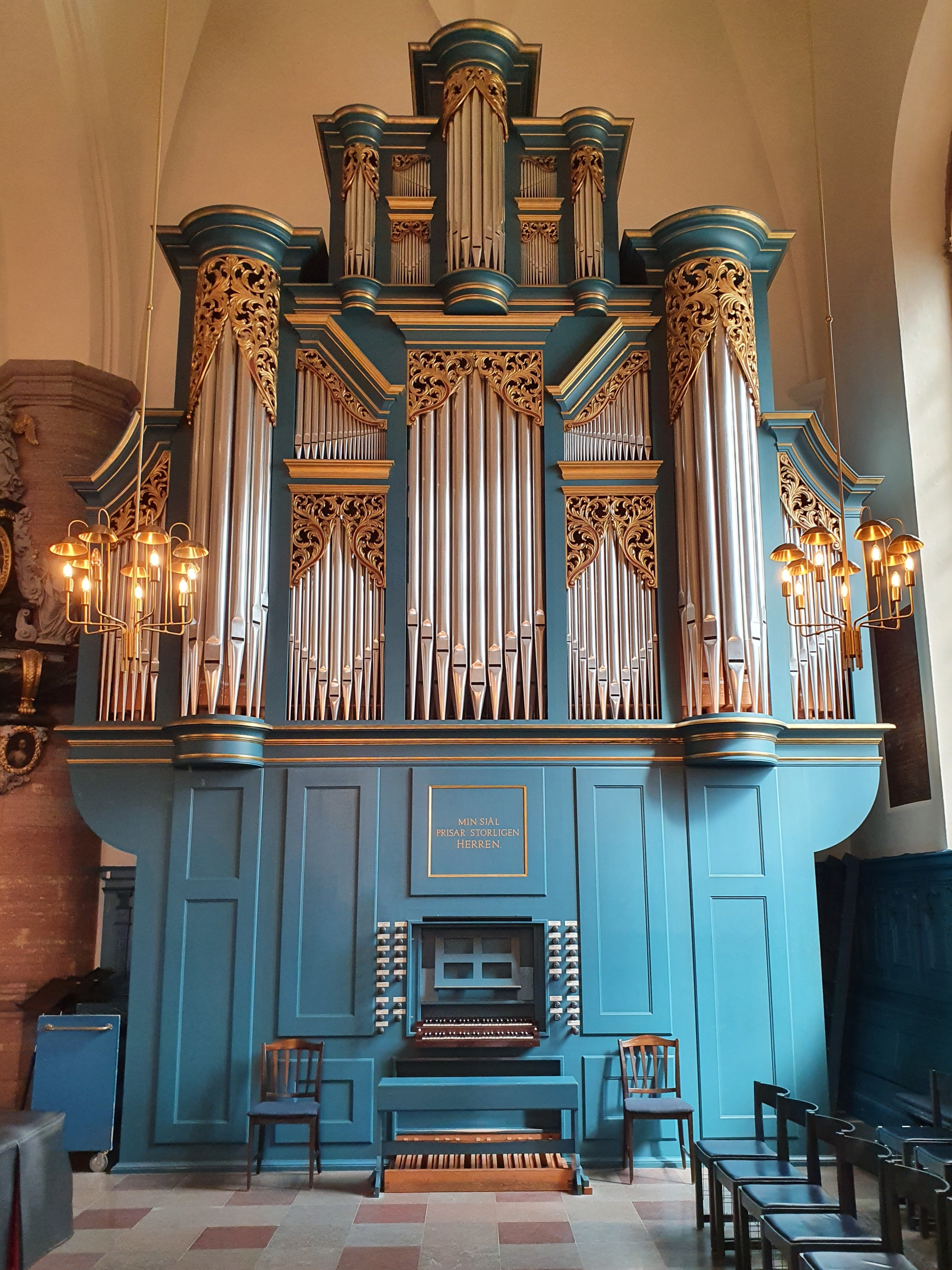 The choir organ in Kristine Church, Falun.